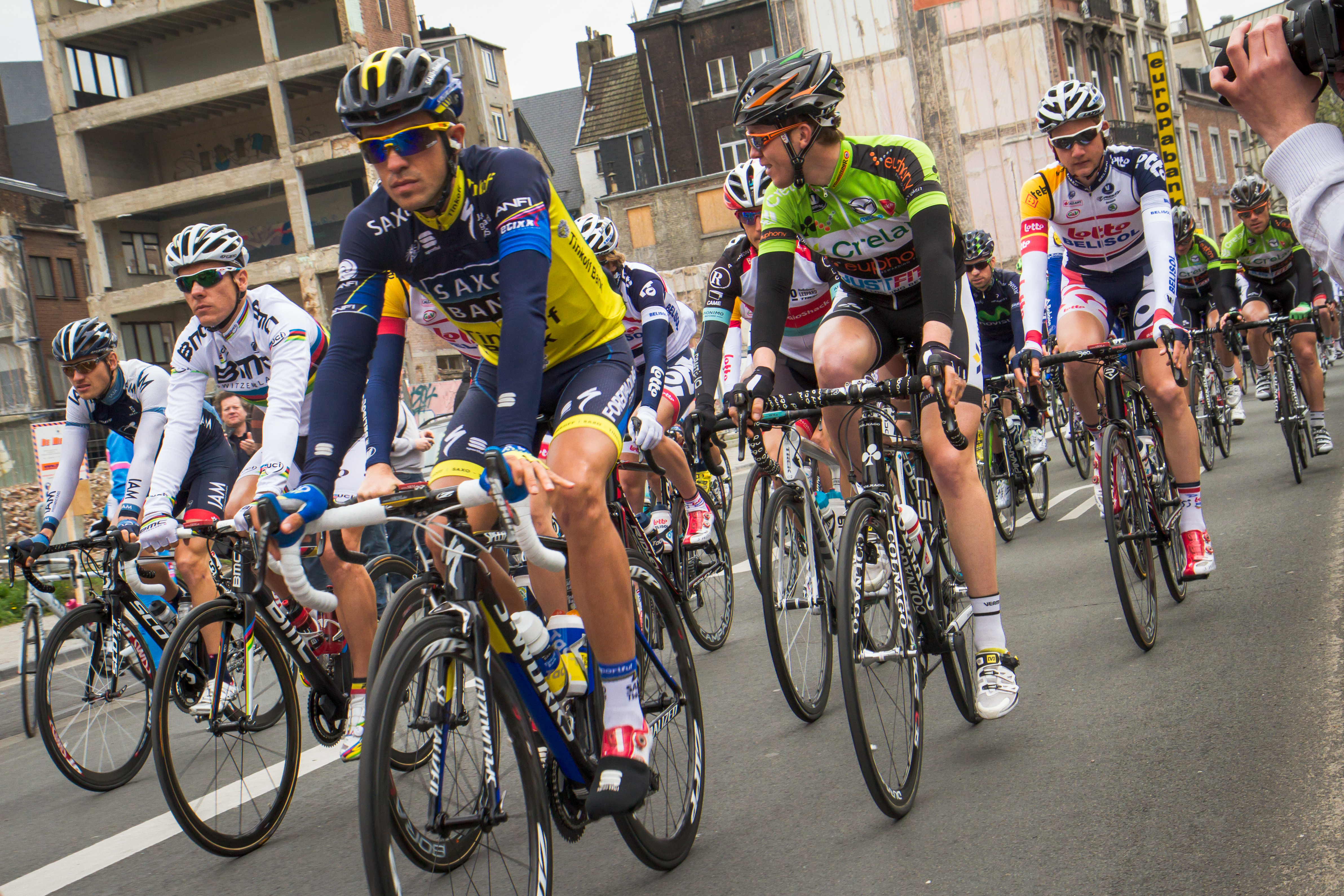 Alberto Contador of Saxo-Tinkoff (TST) with Philippe Gilbert of BMC to the left. Liege-Bastogne-Liege race, 2013